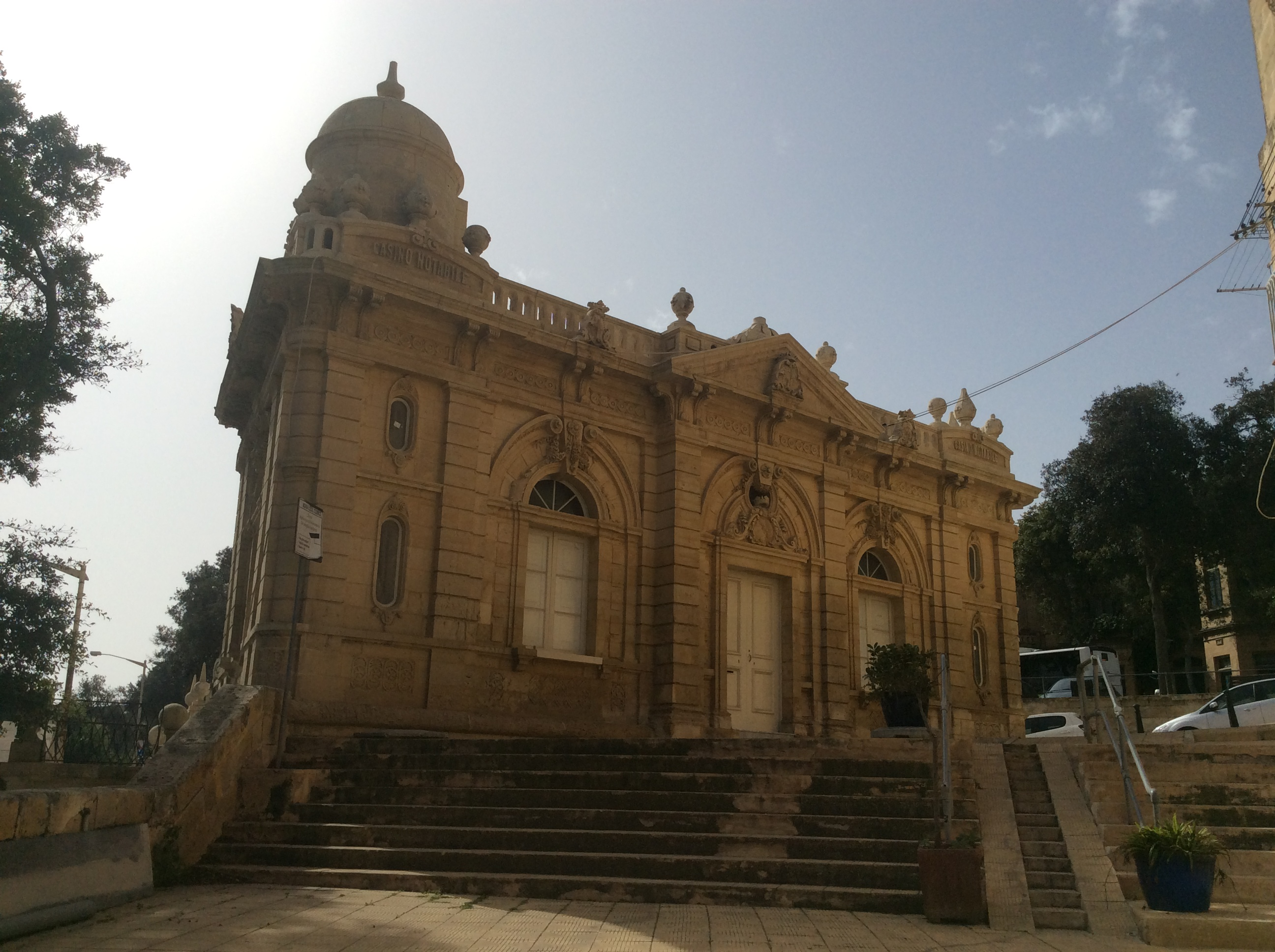 Casino dei Nobili, Casino Notabile